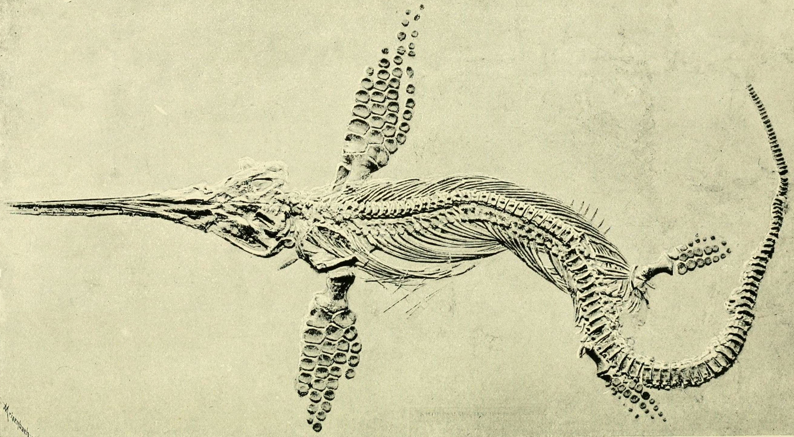 Extinct monsters and creatures of other days London :Chapman & Hall,1910.